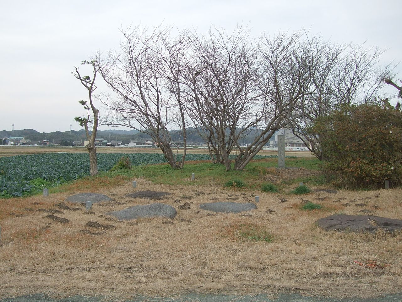 Shito Shiseki Bogun(Shito Dolmen), Itoshima City, Fukuoka, Japan.